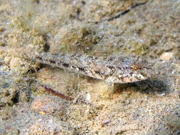 Gobius niger photographed in Limnos, Greece